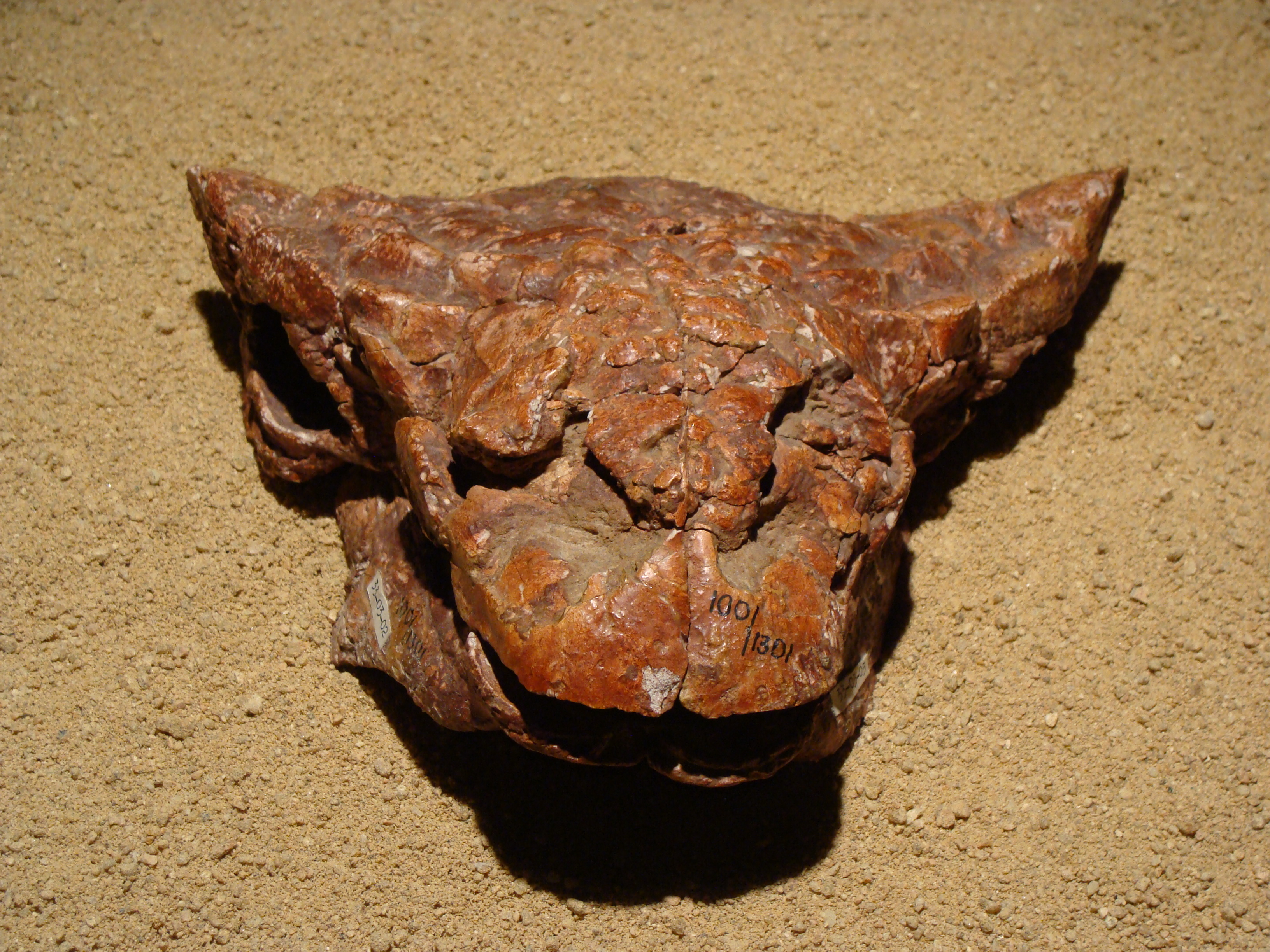 Pinacosaurus grangeri in the exhibition "Dinosaures. Tresors del desert de Gobi" ("Dinosaurs. Treasures of Gobi Desert") in CosmoCaixa, Barcelona.